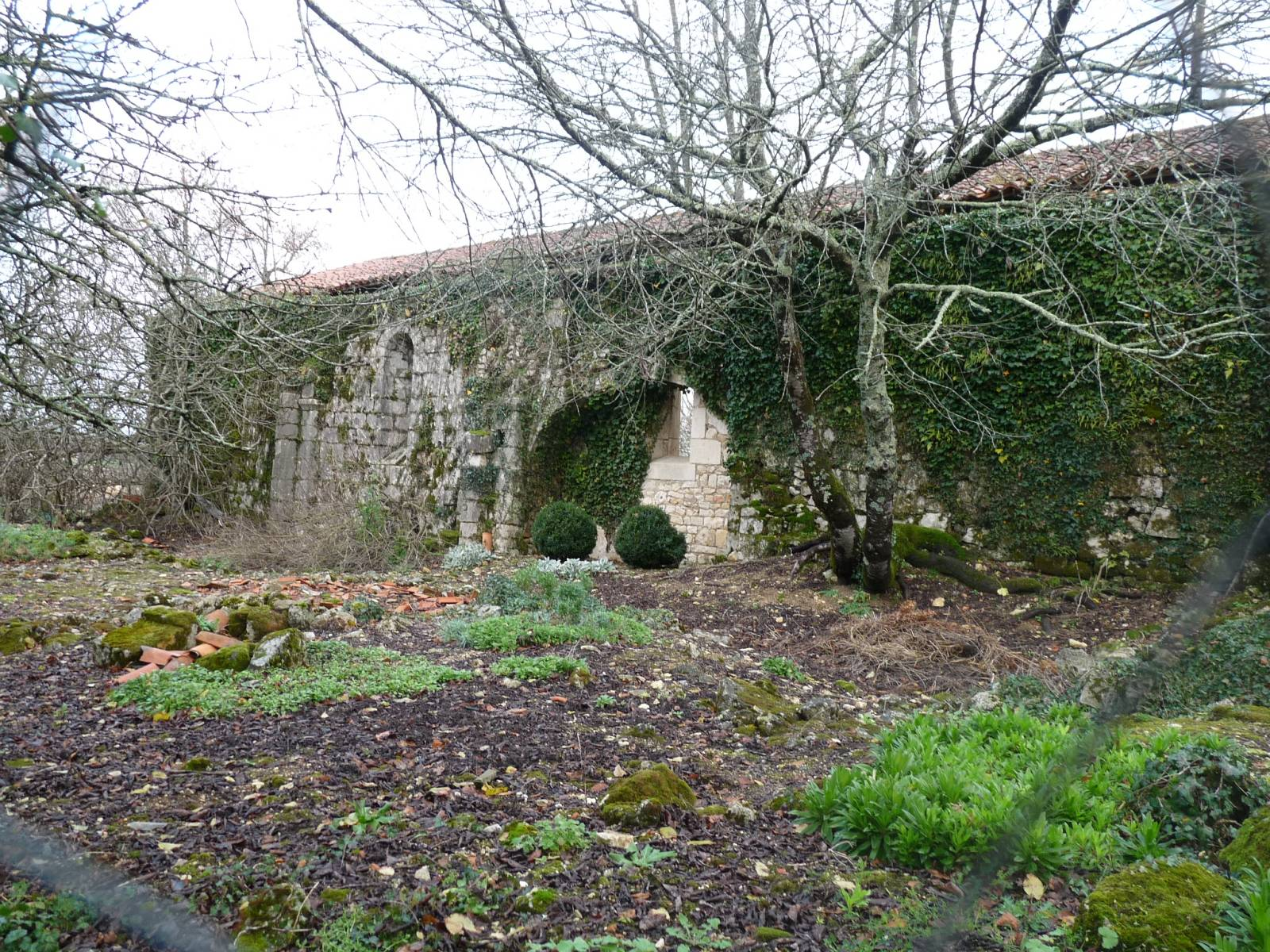 old church of St-Constant, St-Projet, Charente, SW France